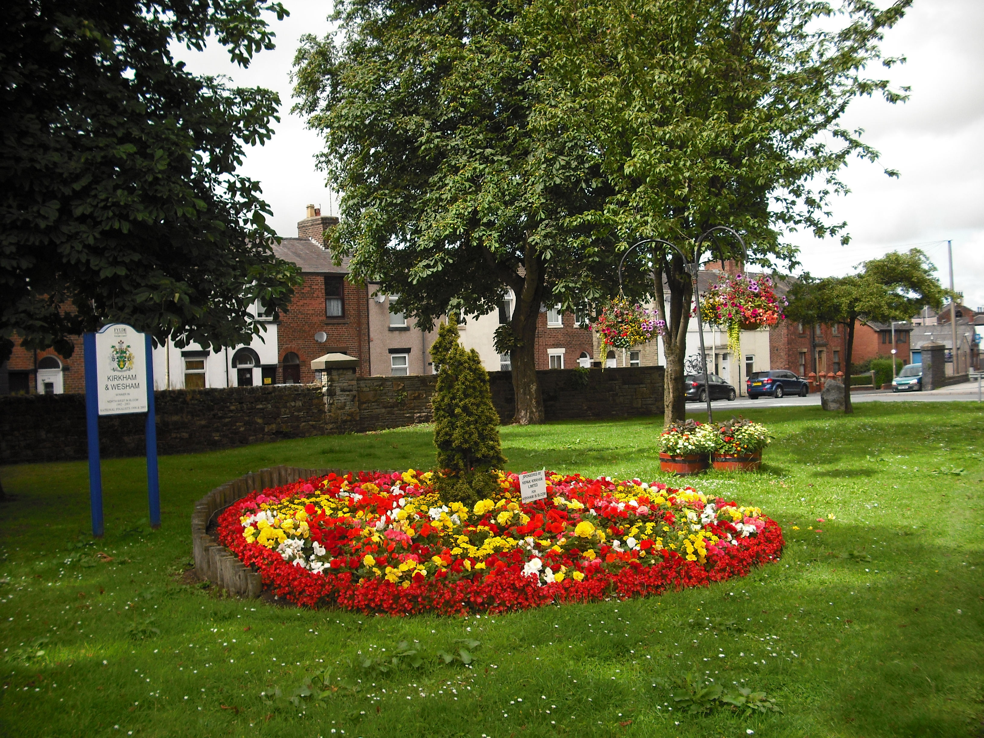 Floral display on Station Road, Kirkham